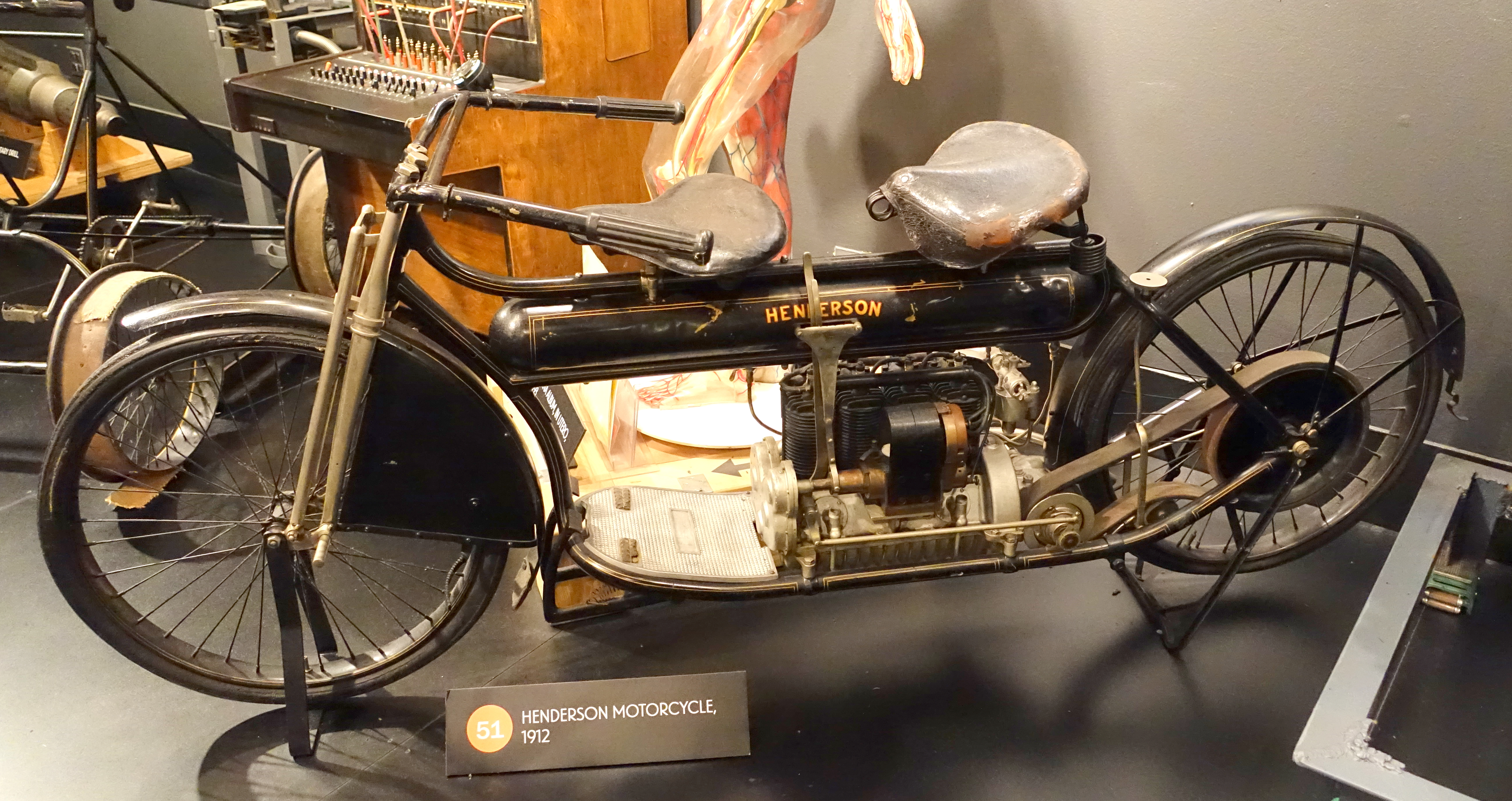 Exhibit in the Museum of Science and Industry, Chicago, Illinois, USA.